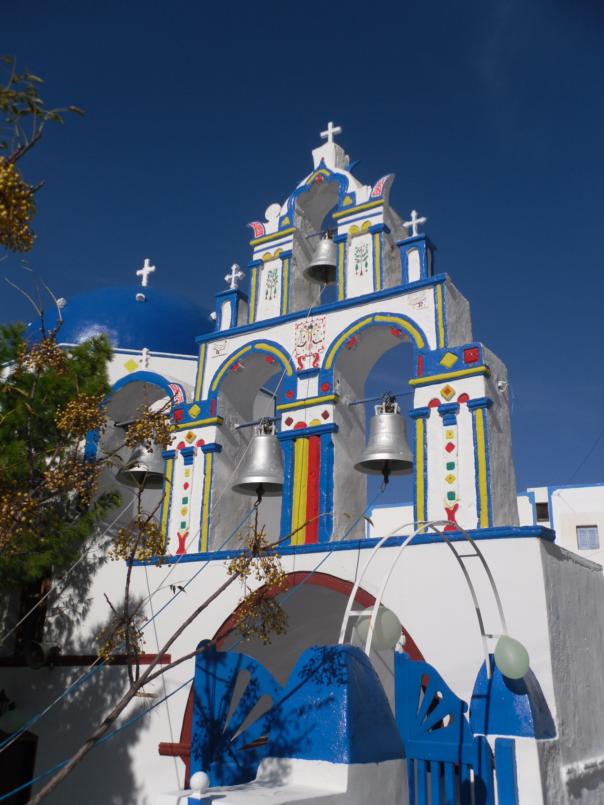 The church of Saint Demetrius in Potamos, Therasia